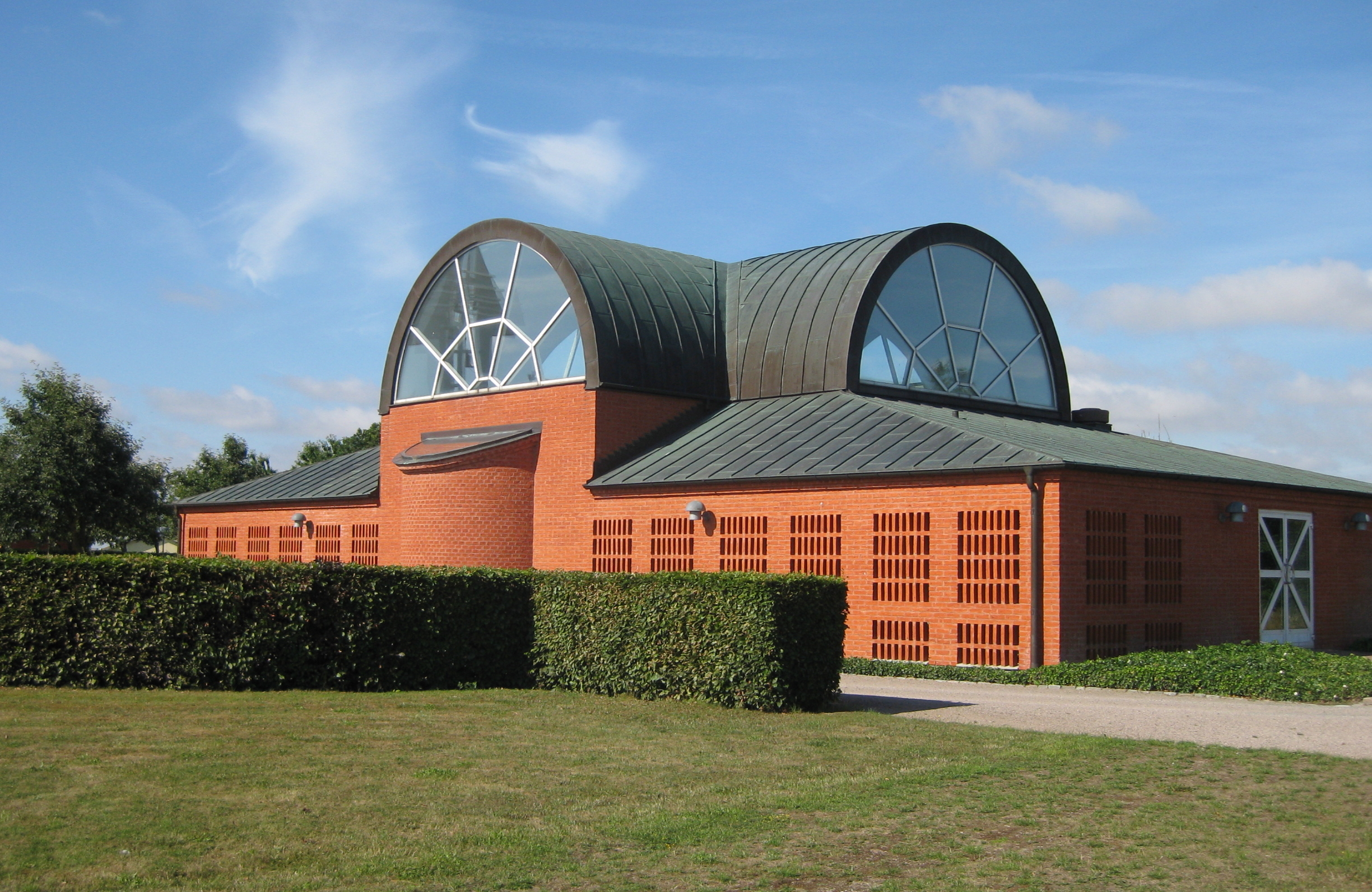 Sankt Clemens funeral chapel in Simrishamn, Skåne, Sweden